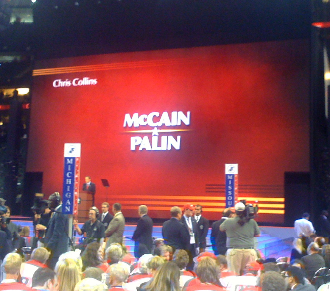 On the RNC convention floor